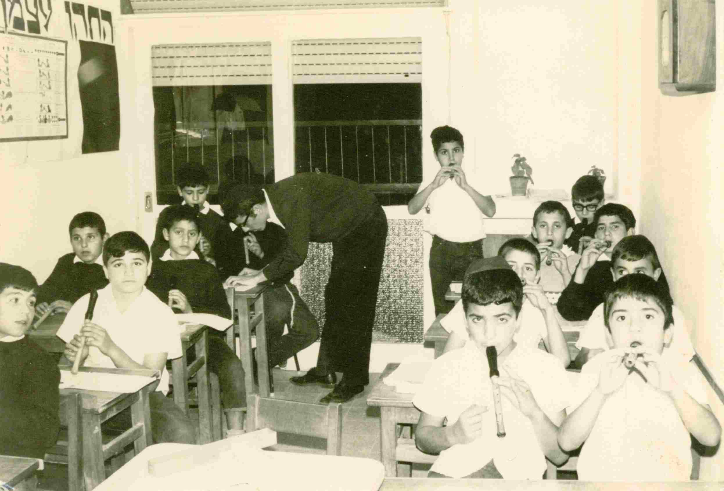 Students learn to play in a group lesson